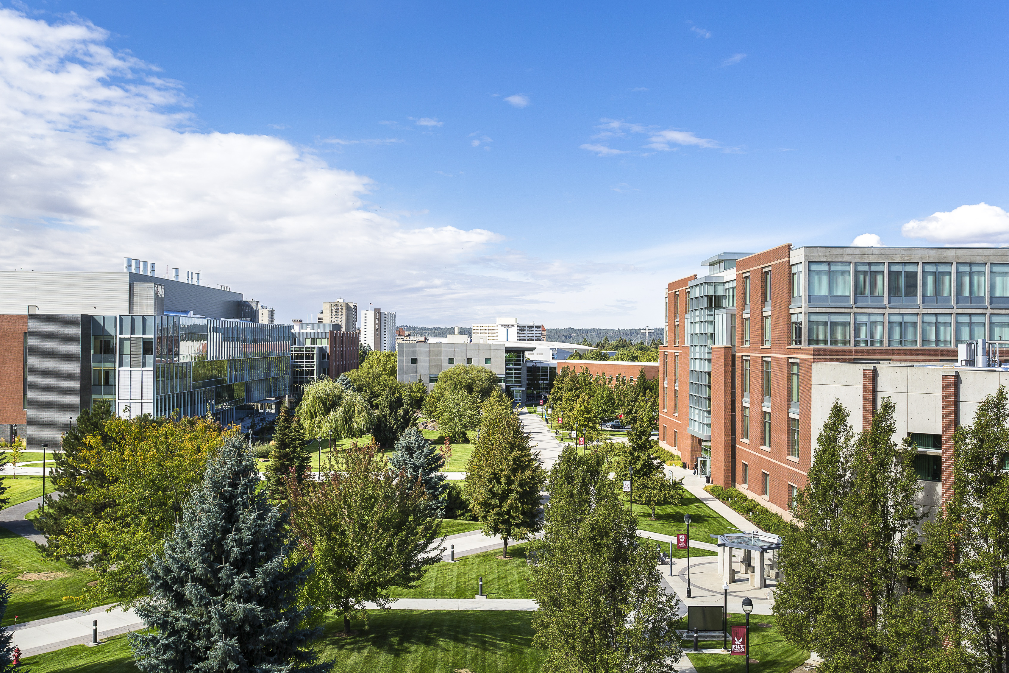 2015 photo, looking west, of the WSU Health Sciences Spokane campus in Spokane, Washington. Credit Legislative Support services 3rd District. Washington State University. WSU Spokane.